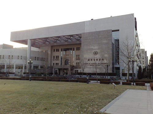 Tsinghua's School of Economics and Management, Tsinghua University, Bejing,China